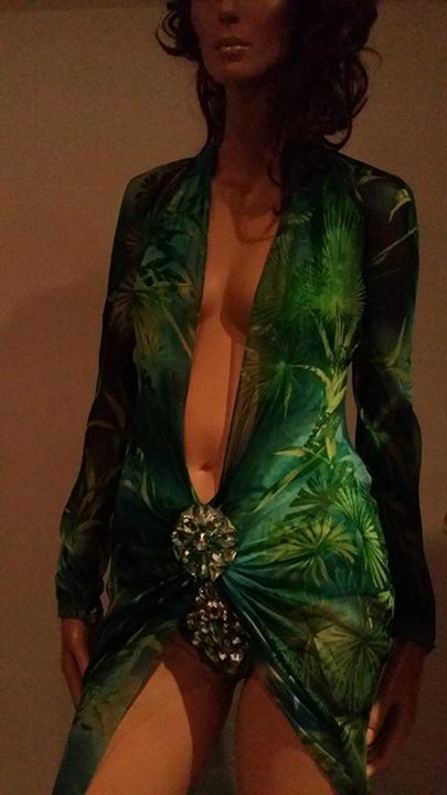 Dress of the Year, 2000. Bamboo-print silk chiffon dress identical to that worn by Jennifer Lopez to the Grammys in February 2000, this version exhibited at the Fashion Museum, Bath, as part of their Dress of the Year Collection.